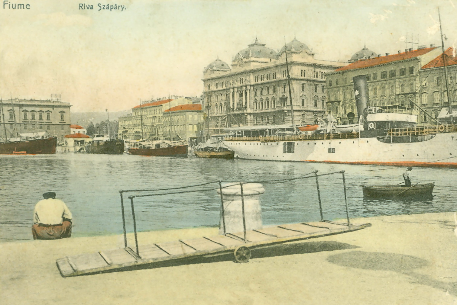 Rijeka Harbor.